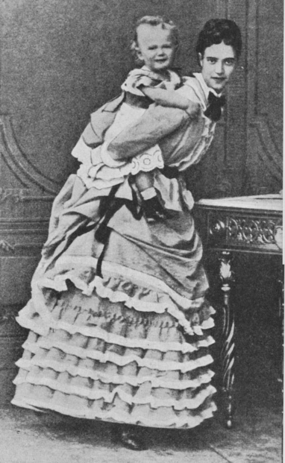 Nicholas II of Russia as a child with his mother